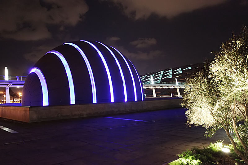 Bibliotheca Alexandrina at night, Alexandria, Egypt